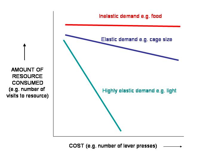 A diagram showing stylised responses of animals in consumer demand studies